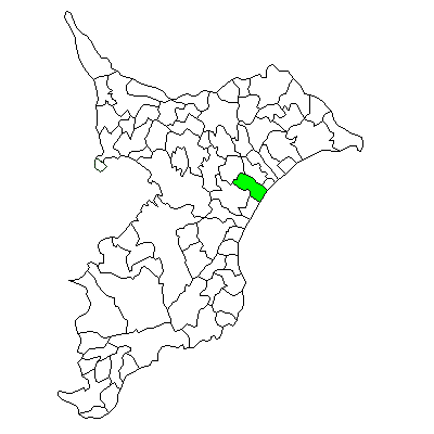 Location Map of former Naruto Town, Chiba Prefecture, Japan, now part of Sanbu City.